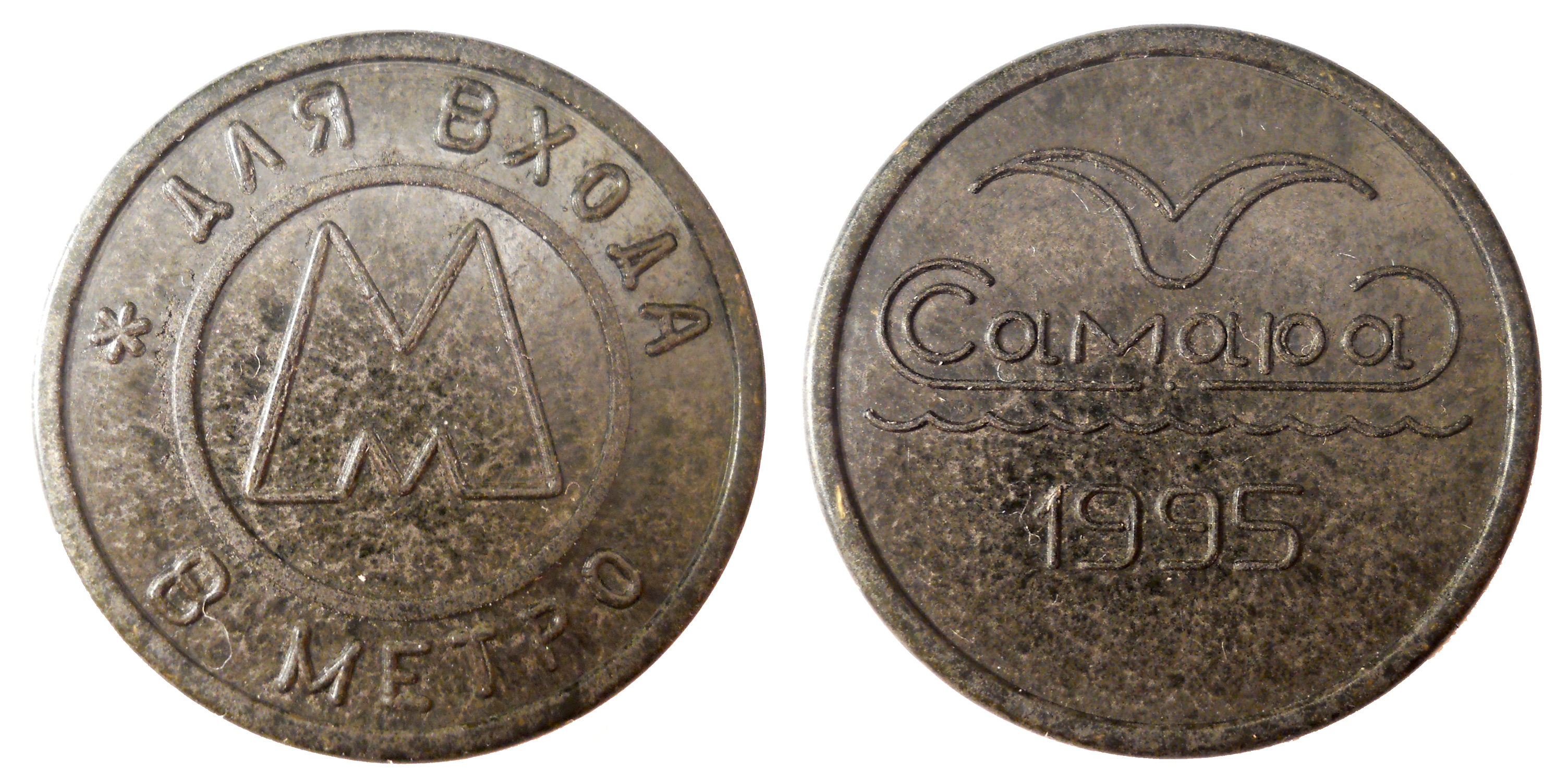 Jetton on metro, Samara